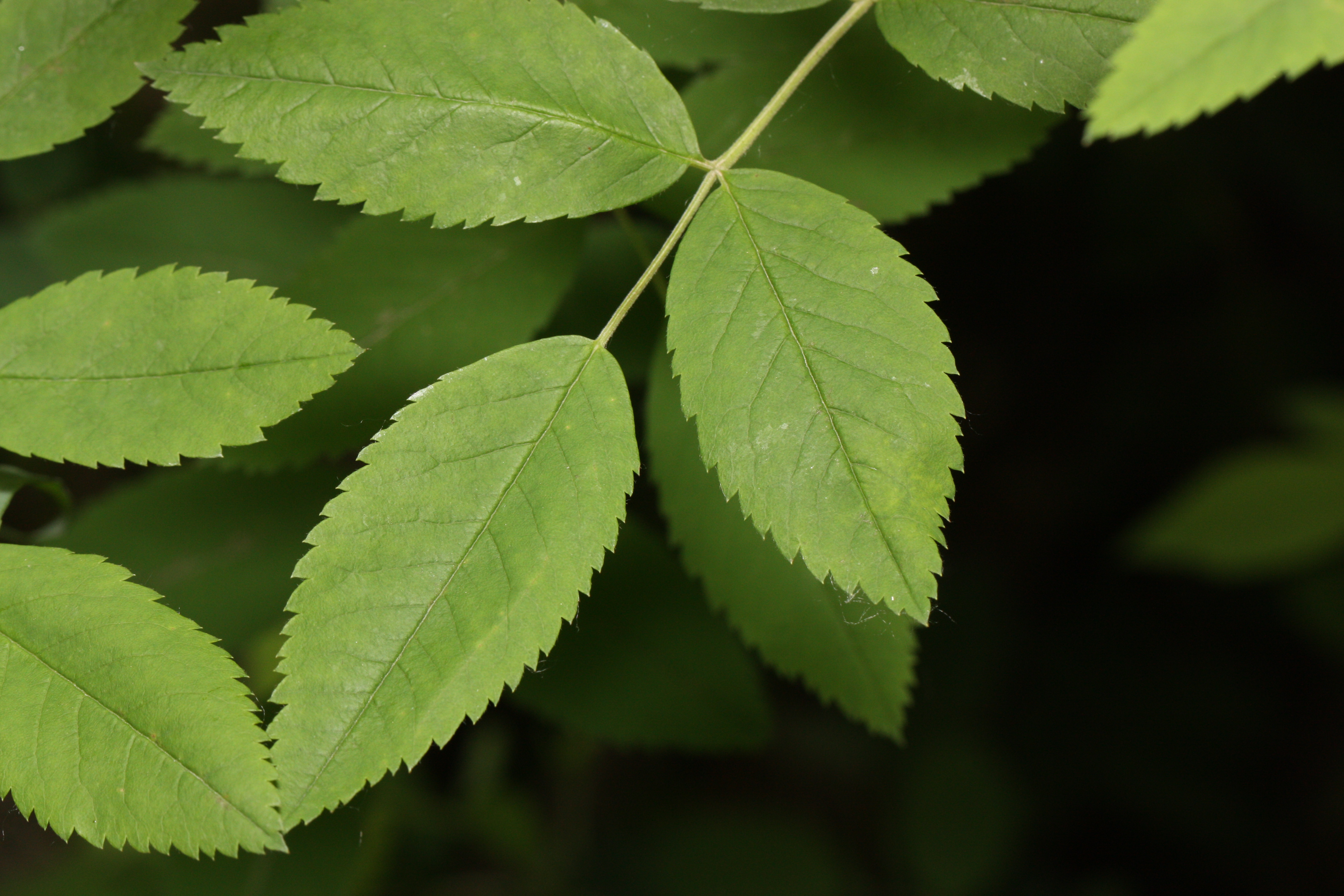 Prickly Rose